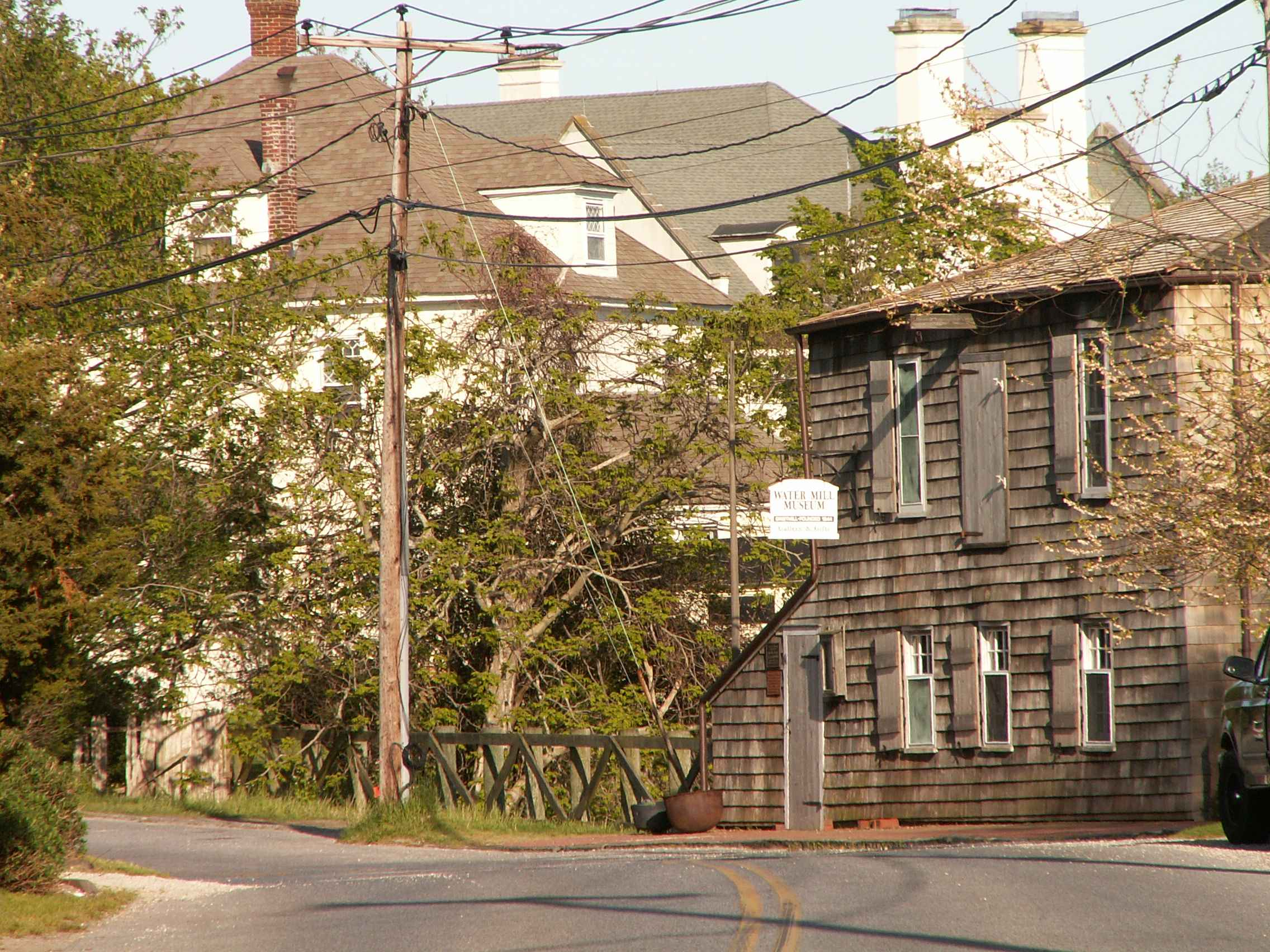 First watermill in New York State